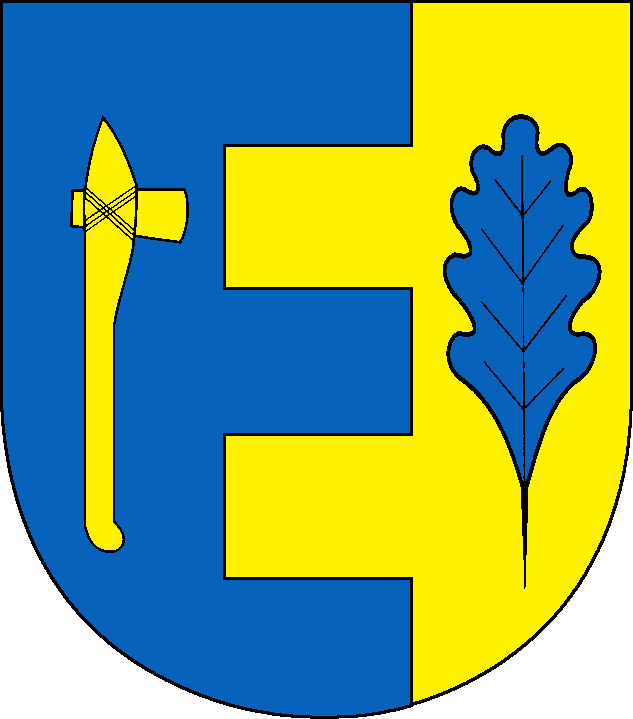 Coat of arms of the municipality Eisendorf in Schleswig-Holstein, Germany.